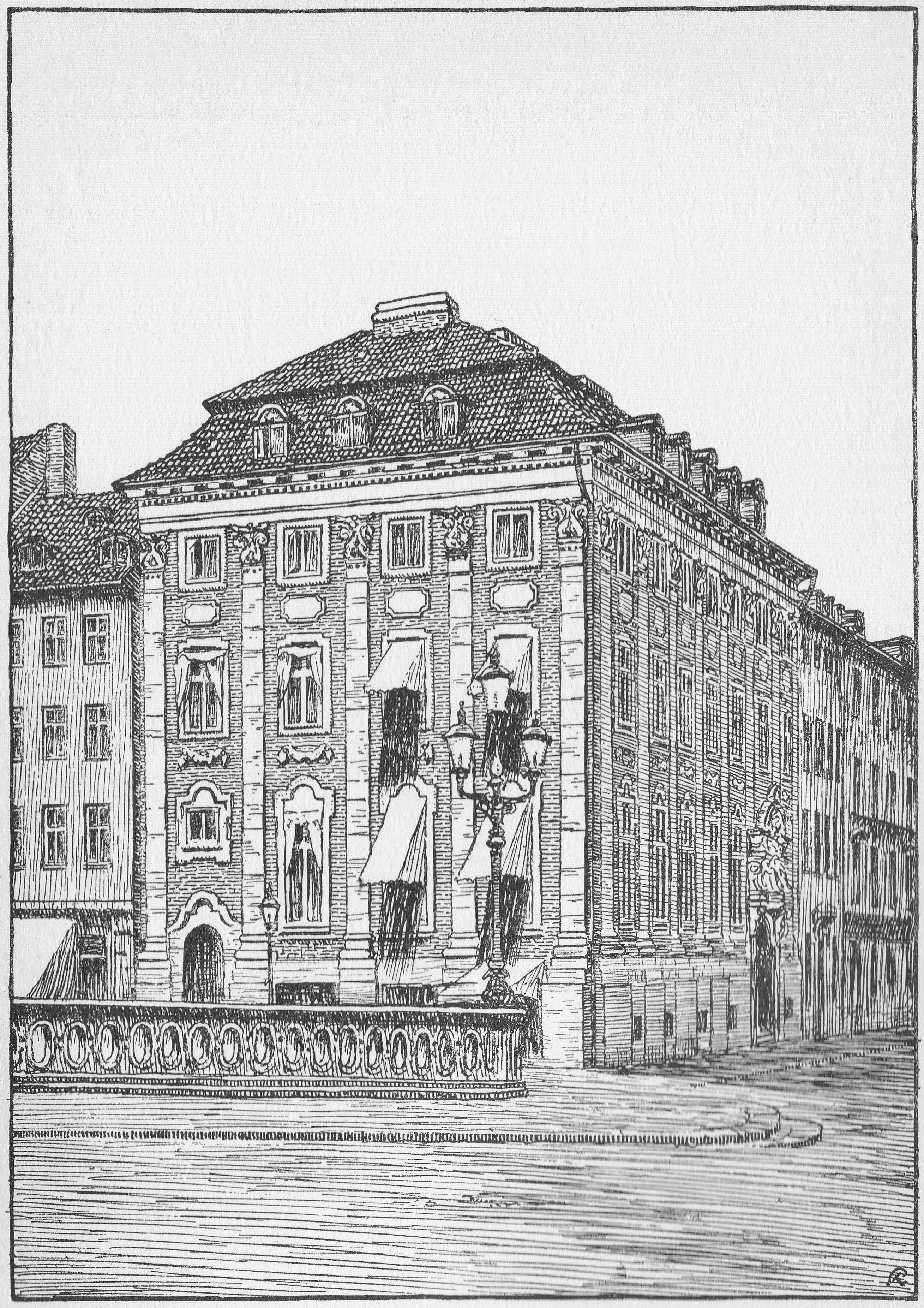 The office building of the Insurance company Kgl. Brand created by Fritz Koch and Gotfred Tvede at the corner of Gammel Strand and Højbro Plads in Indre By in Copenhagen. Today the building is used by the Ministry of Environment.